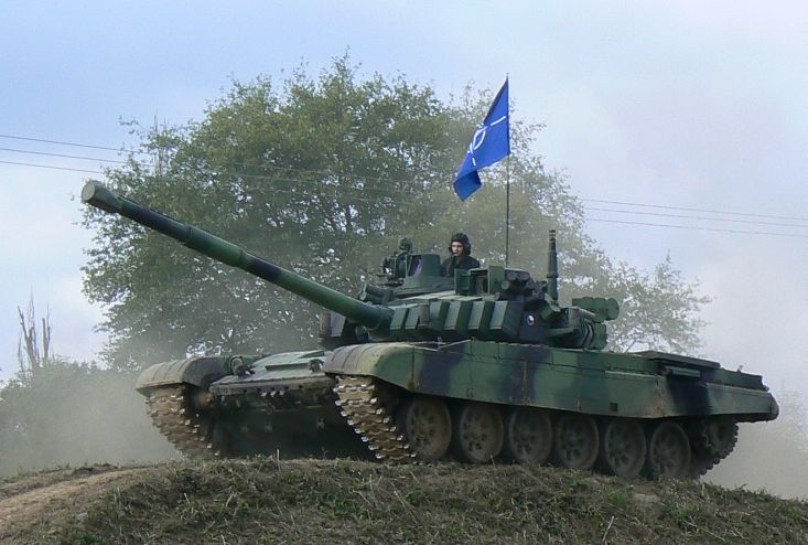 T-72M4 CZ tank during the 6th Tank Day in Lešany Military Technical Museum, Czech Republic